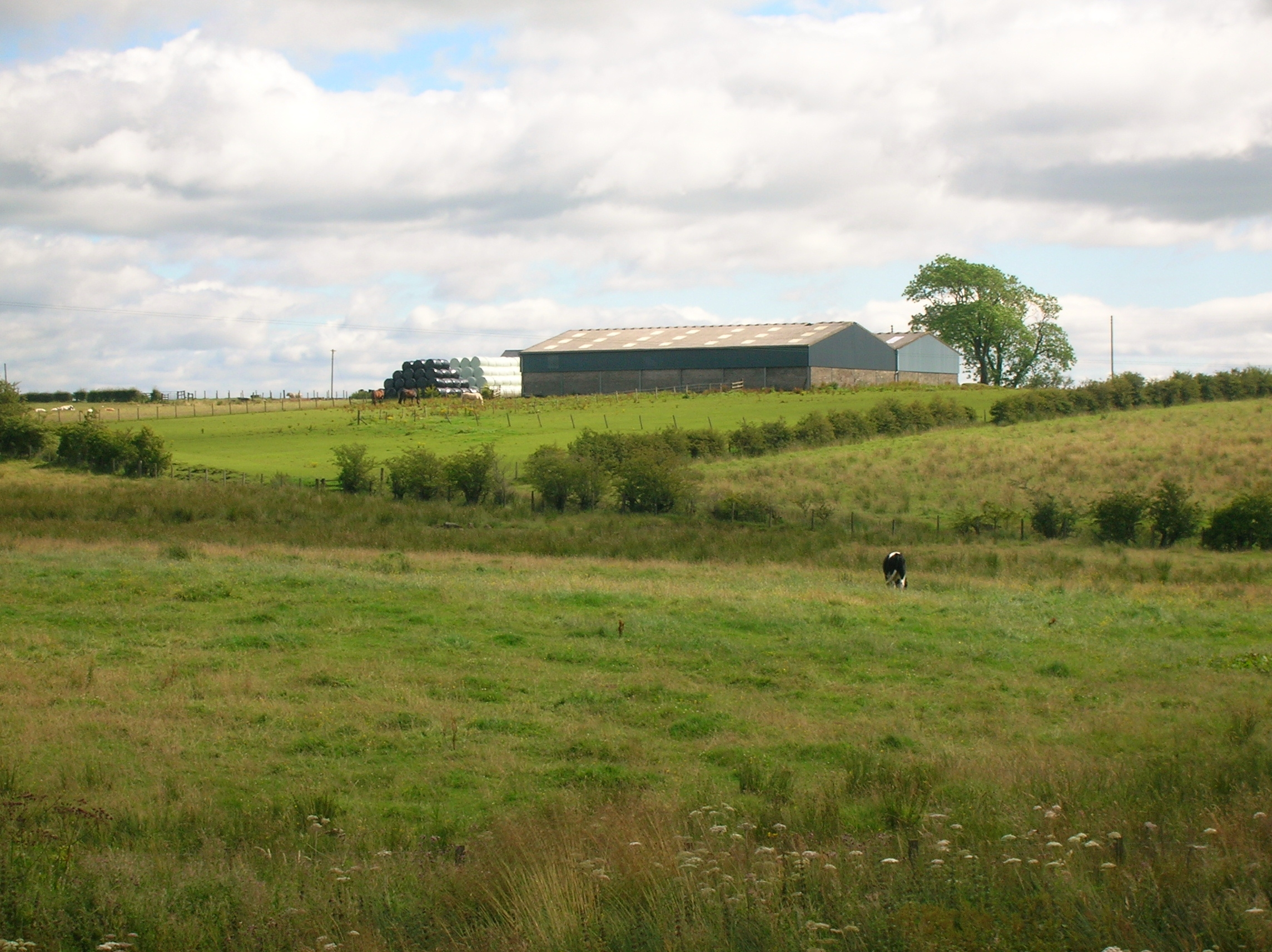 Hill of Pokelly Farm, Fenwick, East Ayrshire, Scotland.